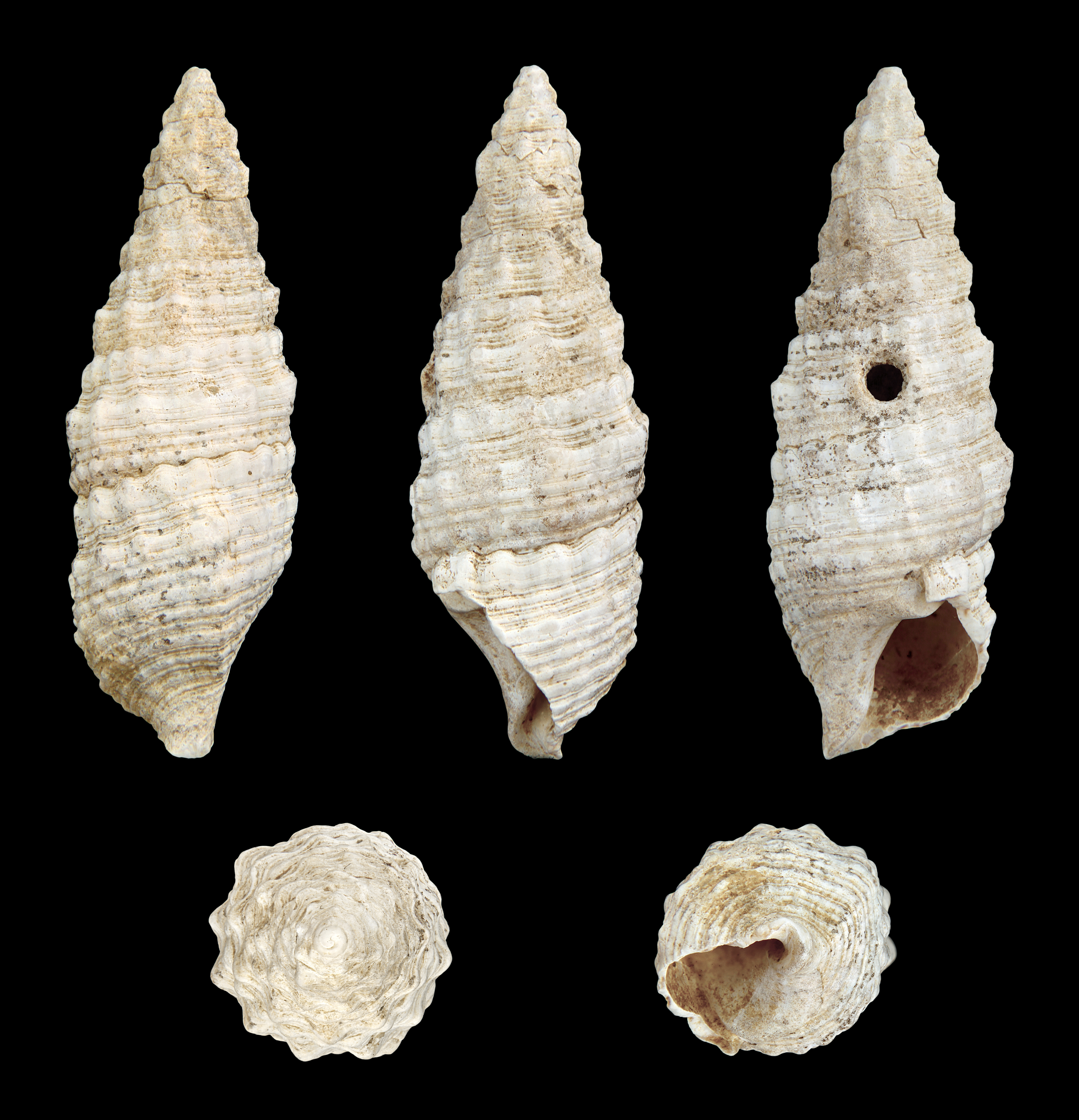 Common Cerith, Length 3.2 cm; Pliocene, Neogene, Tertiary; Bibbiano, Emilia-Romagna, Italy; Shell of own collection, therefore not geocoded. Dorsal, lateral (right side), ventral, back, and front view.